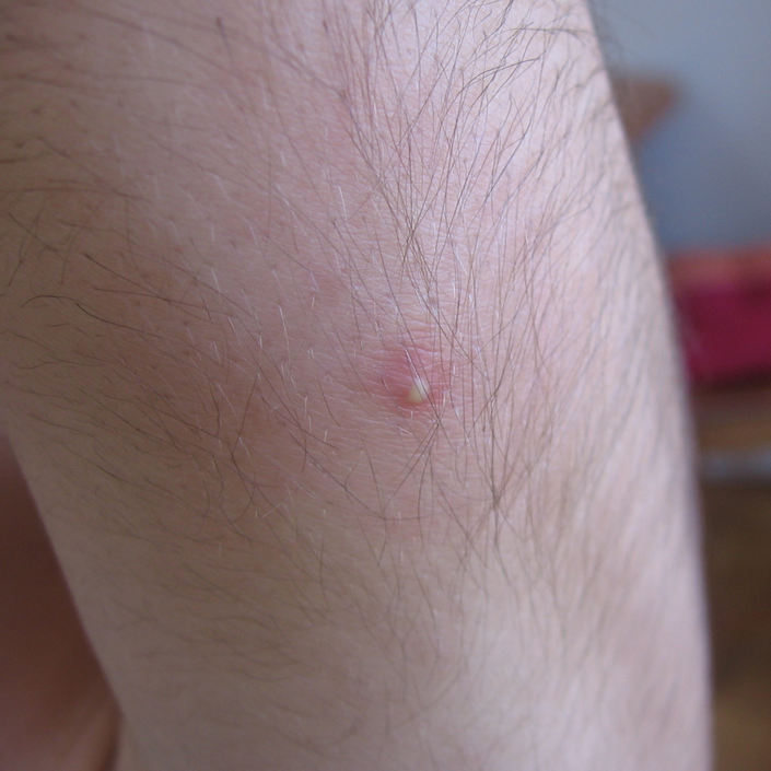 Acne Vulgaris on an arm.